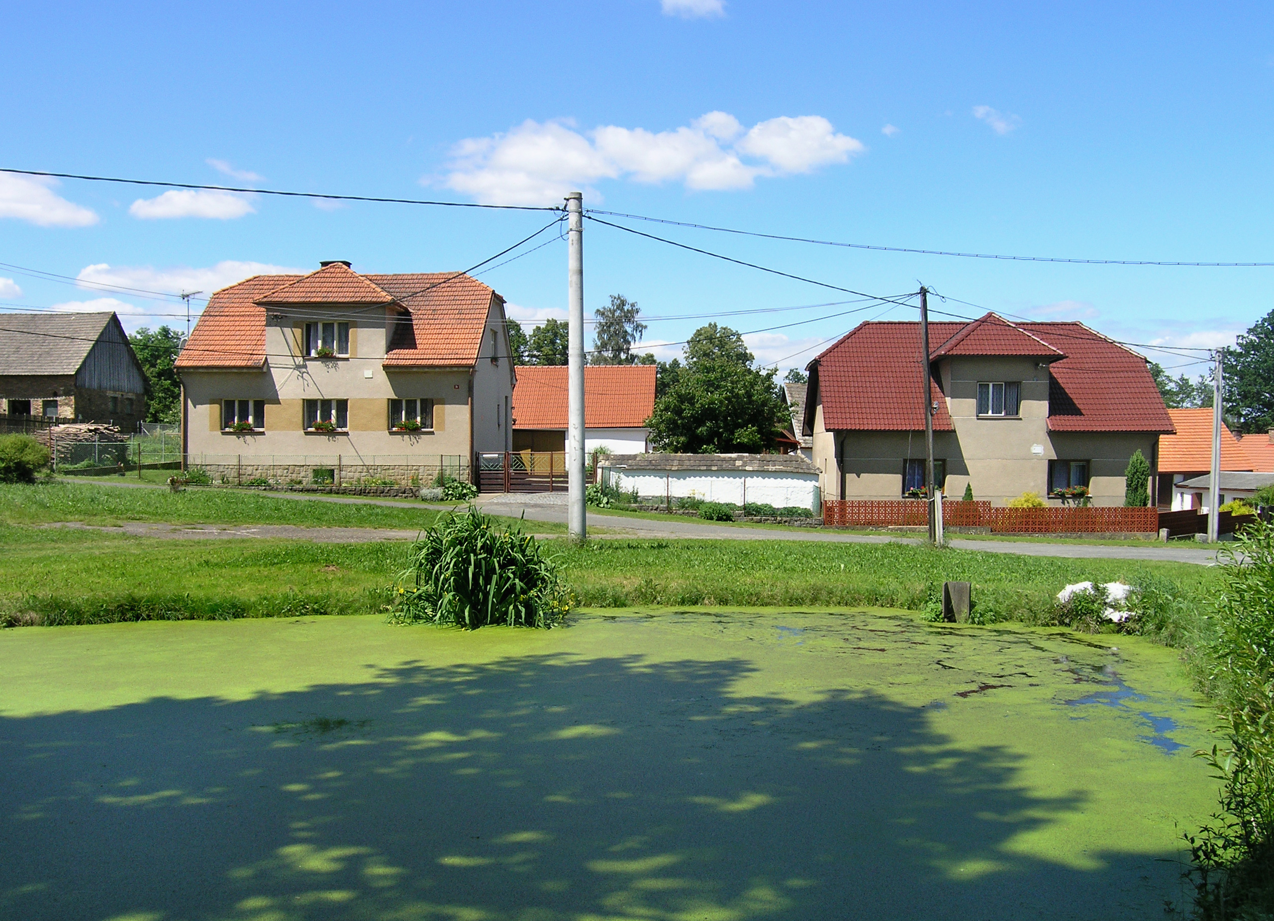 East part of Dunice village, Czech Republic